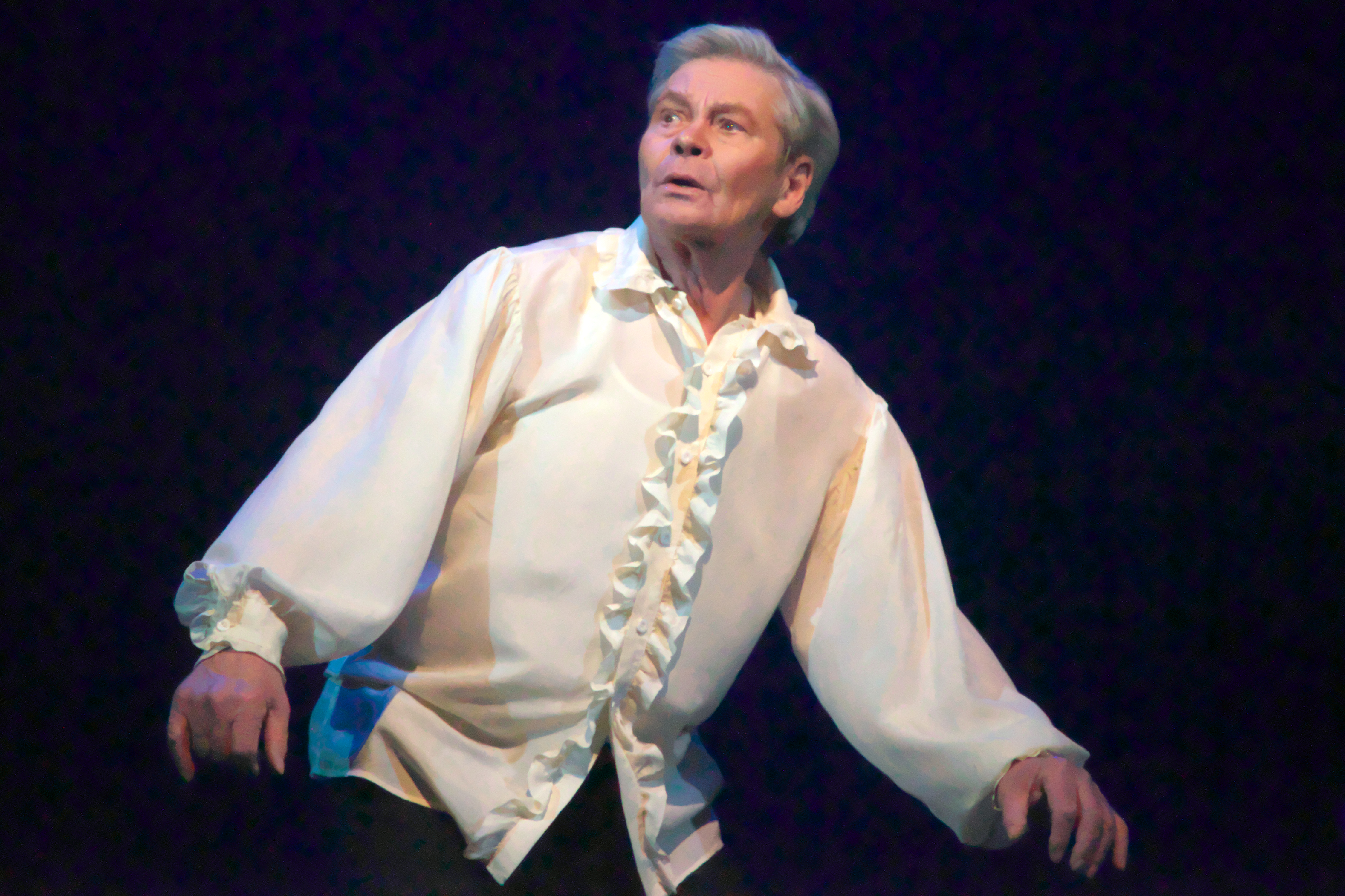 Viktar Dashkevich was a Belarusian stage actor. In the role of the gentry Dubatowk, the play "King Stakh's Wild Hunt"